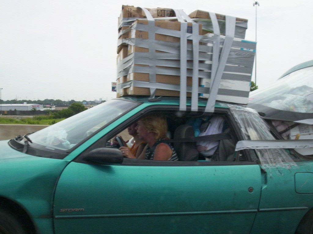 Commentary on image is at